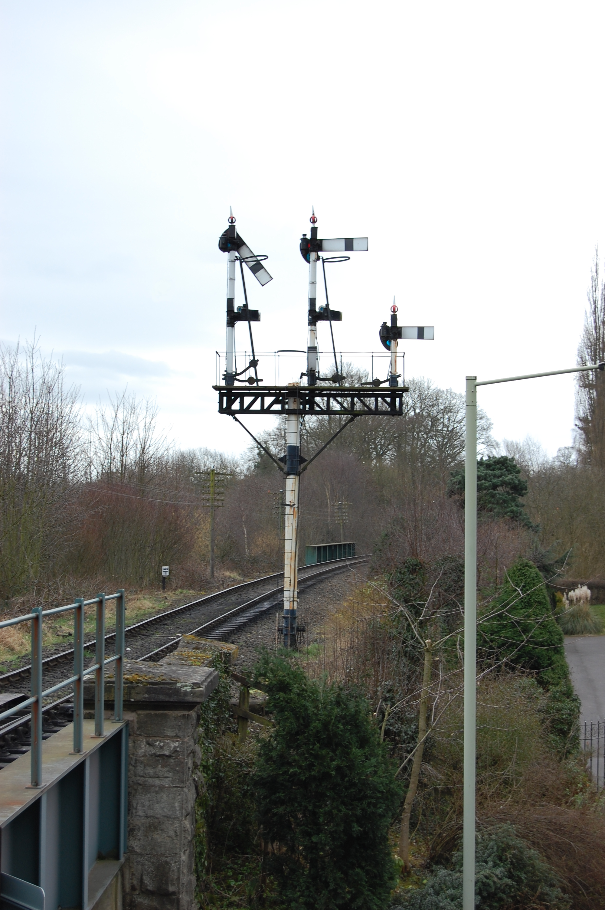 Home Junction Signal at Bridgnorth on the SVR, cleared for a train to enter Platform 1. Taken on 07/03/2009 during the Spring Steam Gala.